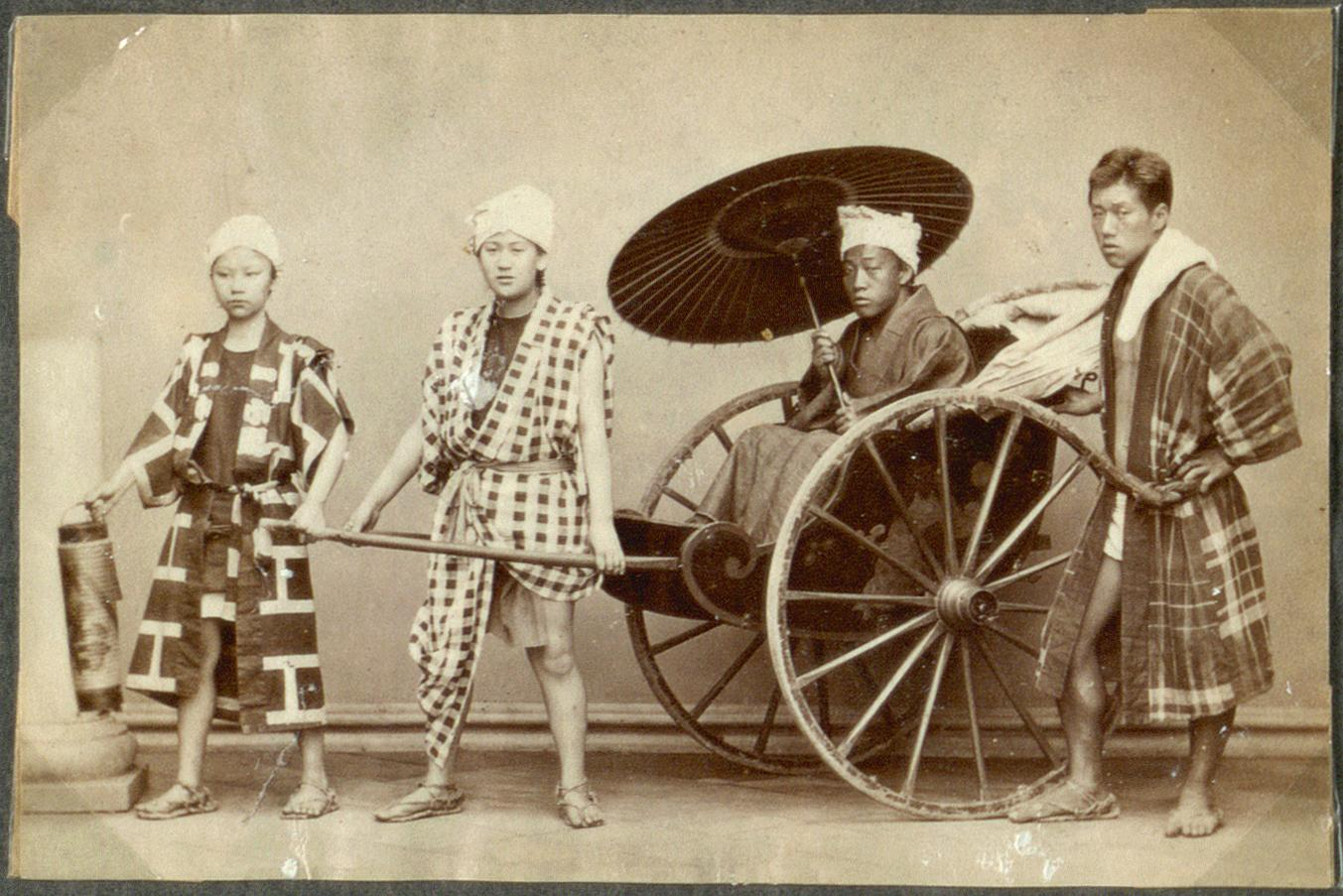 No. es_b_00657 Year: 1860-1910